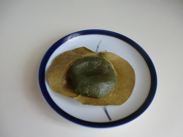 Kakaran Dango (Traditional confectionary of Kagoshima prefecture).